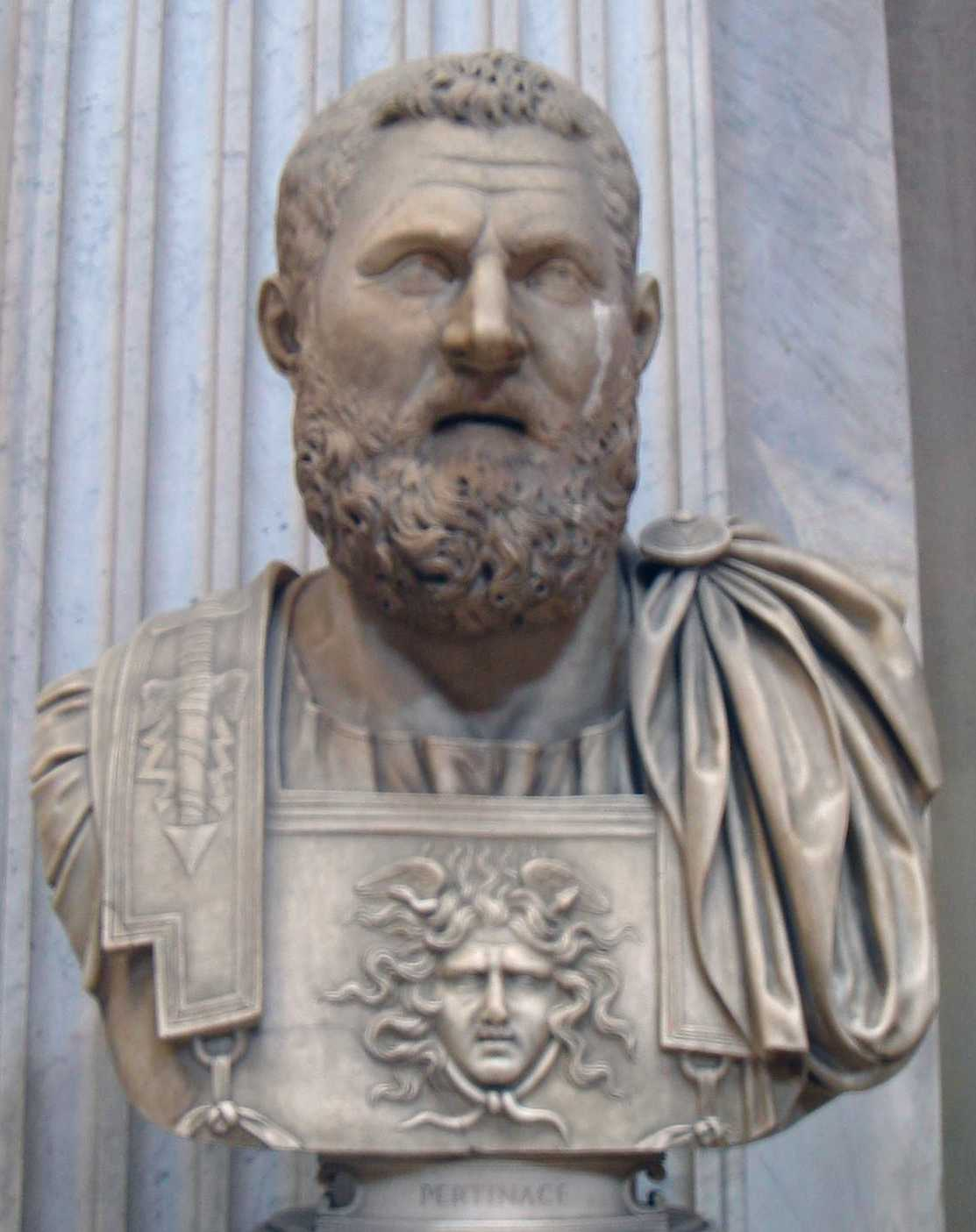 Bust of the consul Gaius Fulvius Plautianus (+ 205), formerly believed to be emperor Pertinax. Exhibited in the "Sala Rotonda" (Round Hall) in the Museo Pio-Clementino (Vatican Museums).